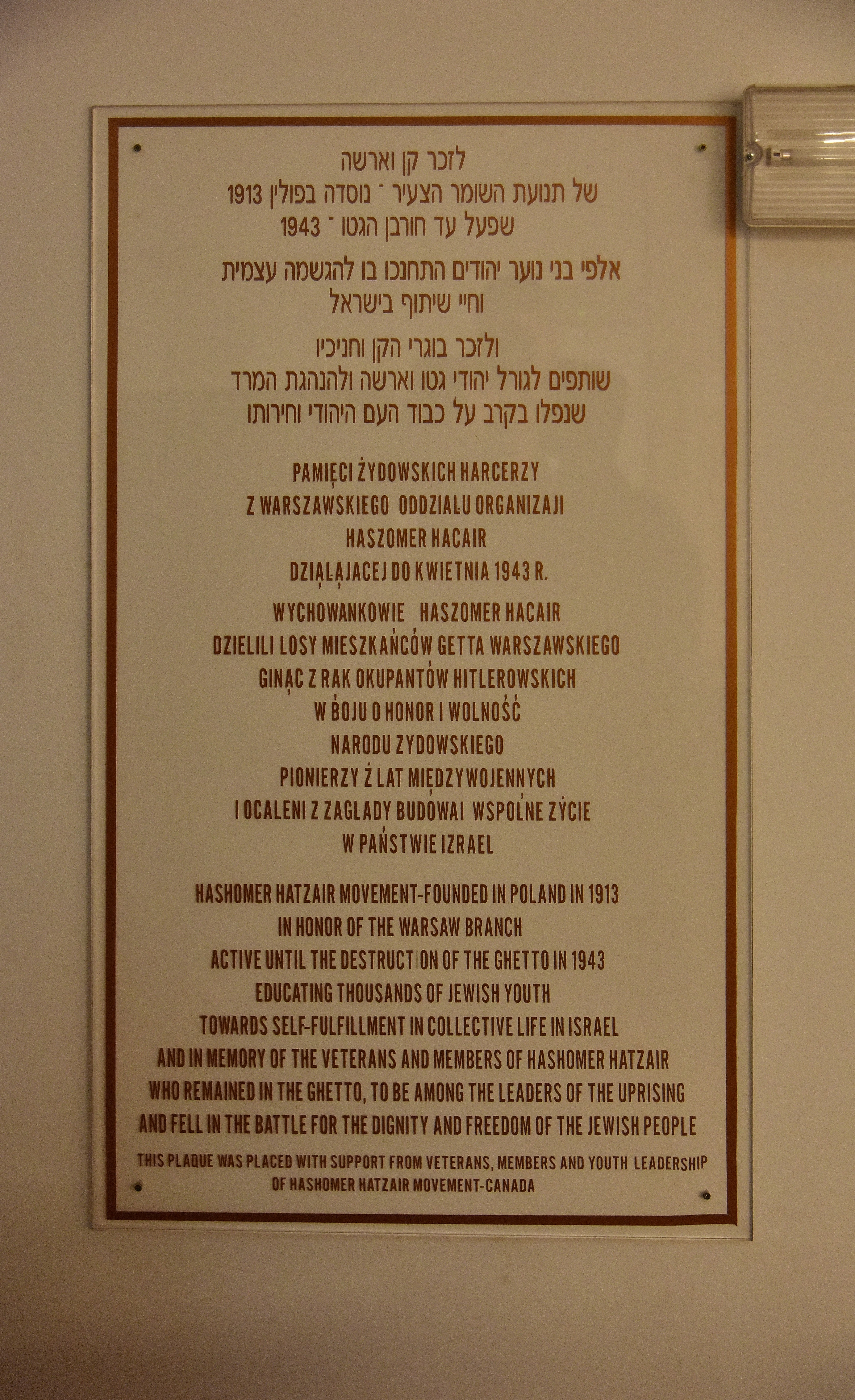 Plaqe in memory of the scouts from the Warsaw branch of Hashomer Hatzair in the lobby of the Jewish Historical Institute in Warsaw